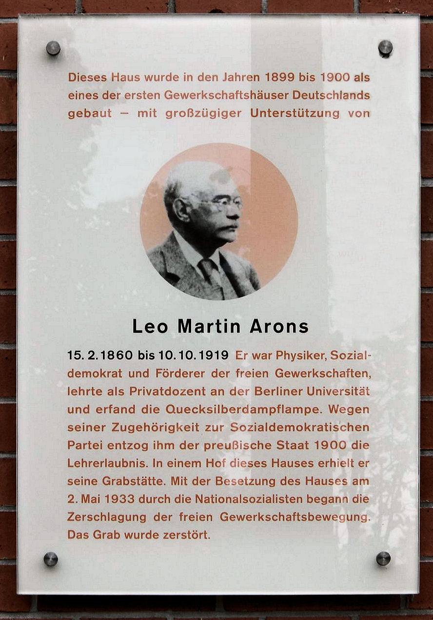 Memorial plaque, Leo Arons, Engeldamm 62-64, Berlin-Mitte, Germany Koordinate:52°30′21″N 13°25′17″E / 52.50583°N 13.42139°E